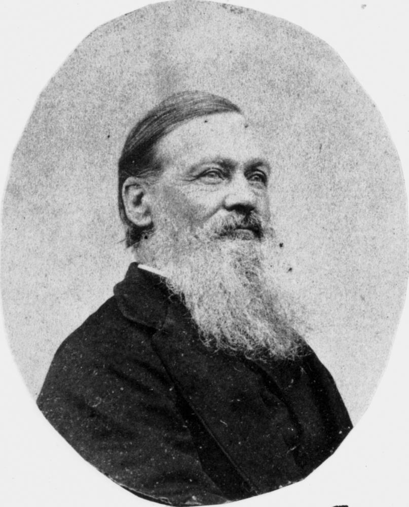 Sir Augustus Charles Gregory, Surveyor General of Queensland. Augustus Charles Gregory was born in 1819 in Farnsfield, Nottinghamshire. As a young man he came with his family to Western Australia to the new Swan River Settlement where his father accepted land in lieu of a pension from the army. He chose his profession encouraged by the Surveyor General Roe who made Gregory a surveying cadet in his department in 1841 and he became an assistant surveyor. After extensive experience in Western Australia with his brothers he later came to Queensland. He was leader of the North Australian Exploring Expedition from 1855 to 1857 which included Ferdinand Mueller. The expedition explored the Victoria River and Sturt Creek in the Northern Territory before returning overland to Moreton Bay in Queensland.